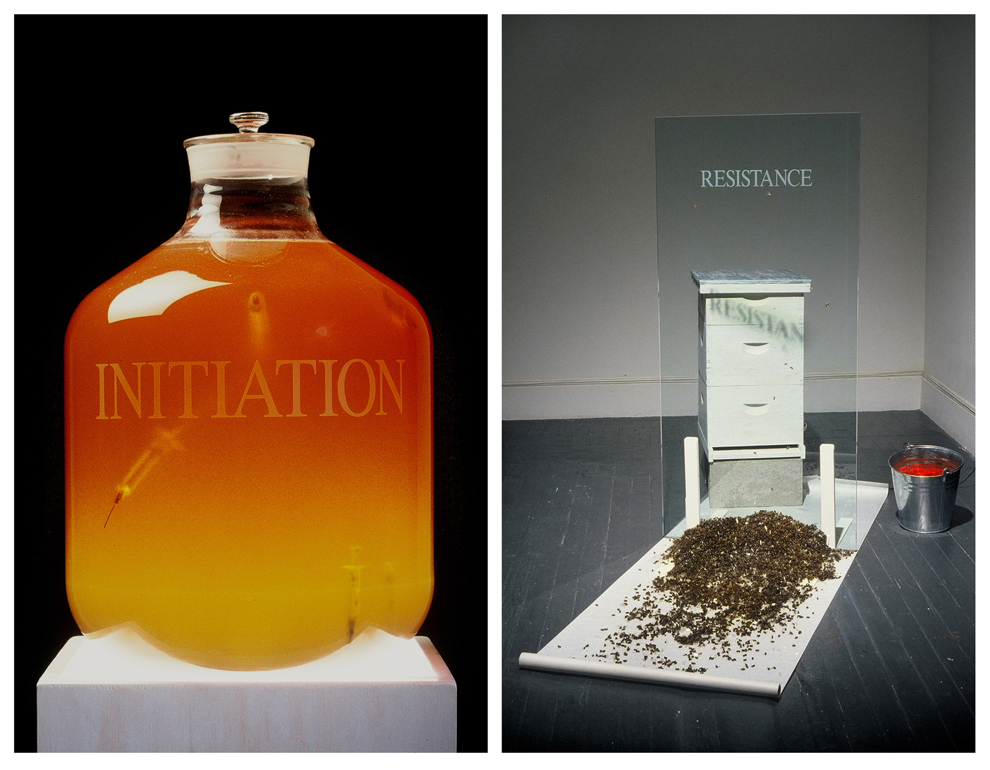 Swarm Installation Views